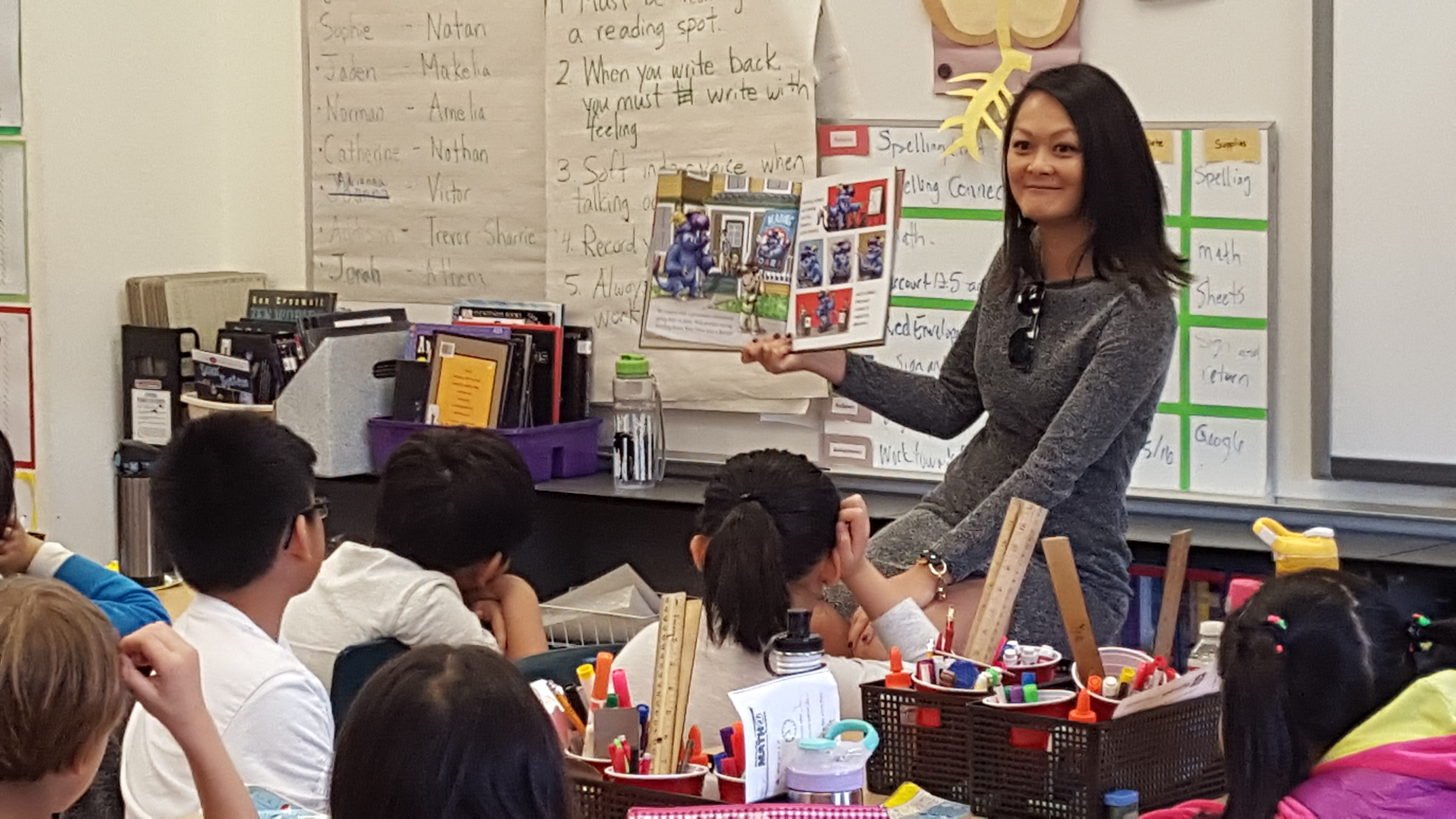 Chu read to kids on Read Aloud Day. About one-third of San Francisco’s property tax revenue goes to public education.